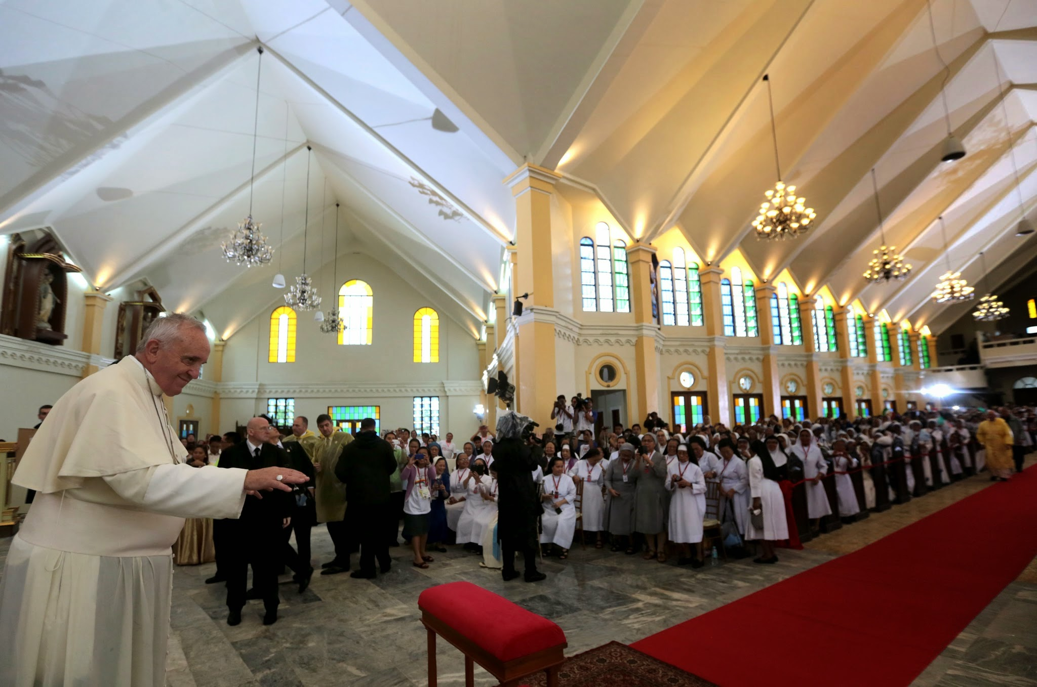 Pope Francis visits Palo Cathedral in one of his sorties in Leyte Province Saturday, January 17, 2015. The Pope announced his shortened visit to the province due to on going typhoon in the area. He made a quick blessing to items presented to him by some of the churchgoers in the cathedral before leaving.